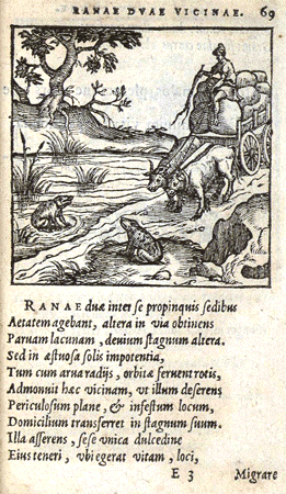 A page from the Plantin edition of Gabriele Faerno's Centum Fabulae, Venice 1567